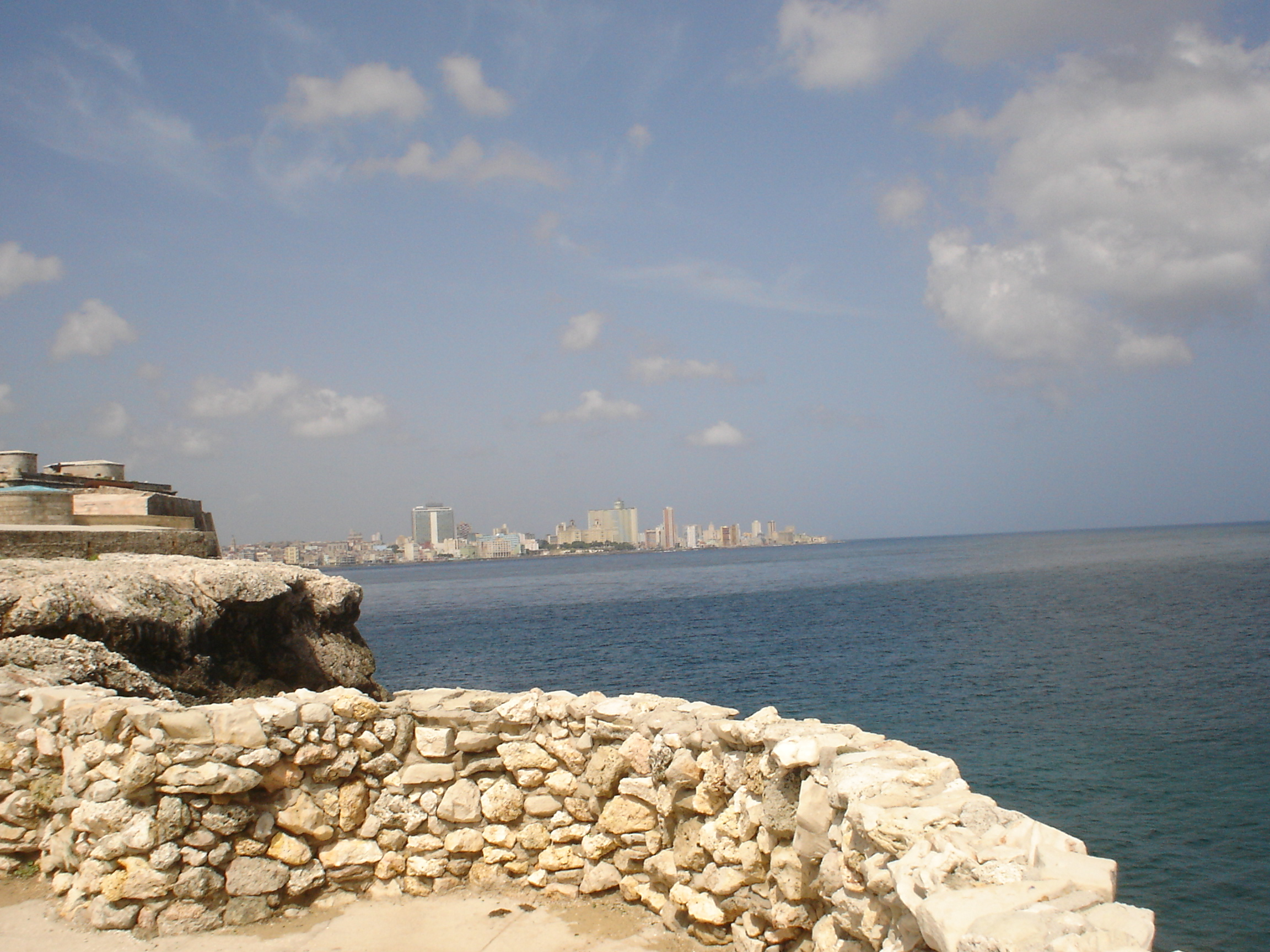 Este de la Habana.